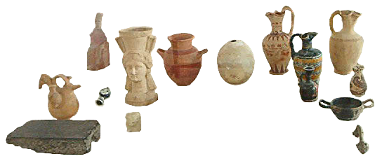 Punique Ceramics of the "Musée national de Carthage" (National Museum of Carthage).